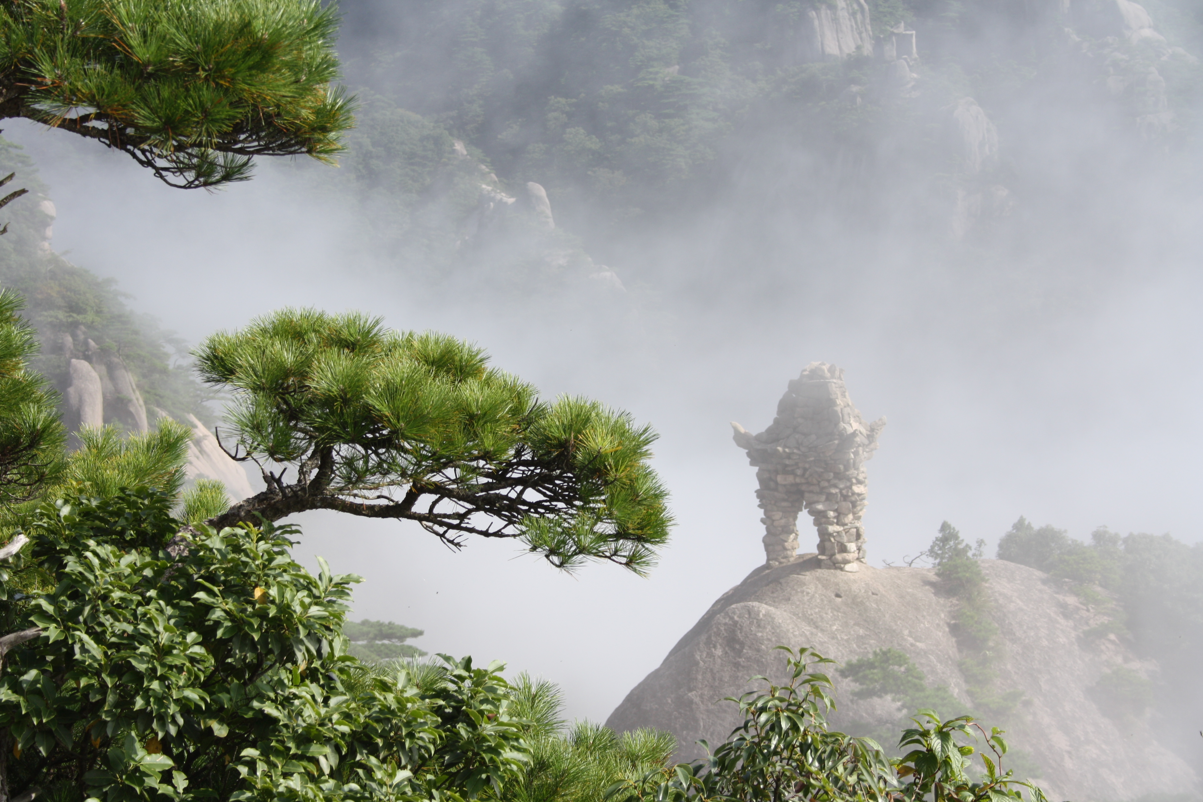 Rocky Gate in Huangshan mountains.